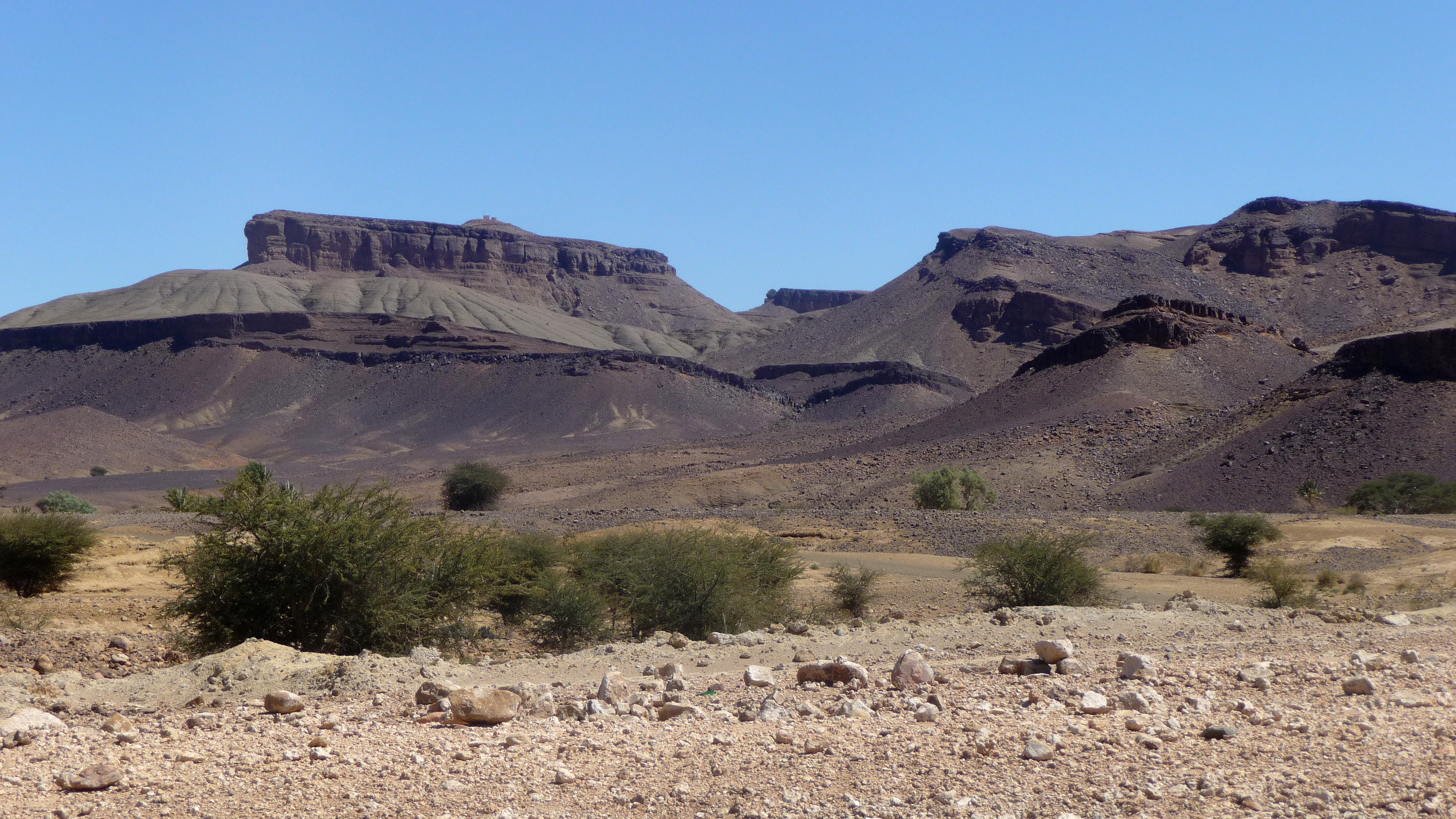 Towards Tazzarine